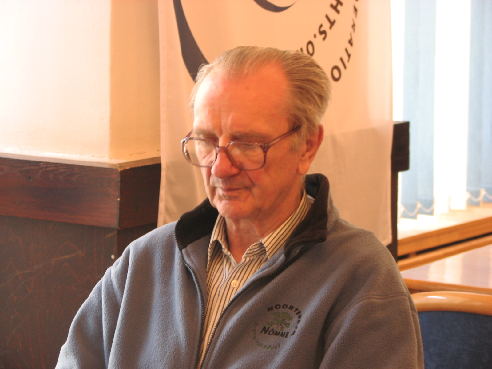 Heinar Jahu playing draughts